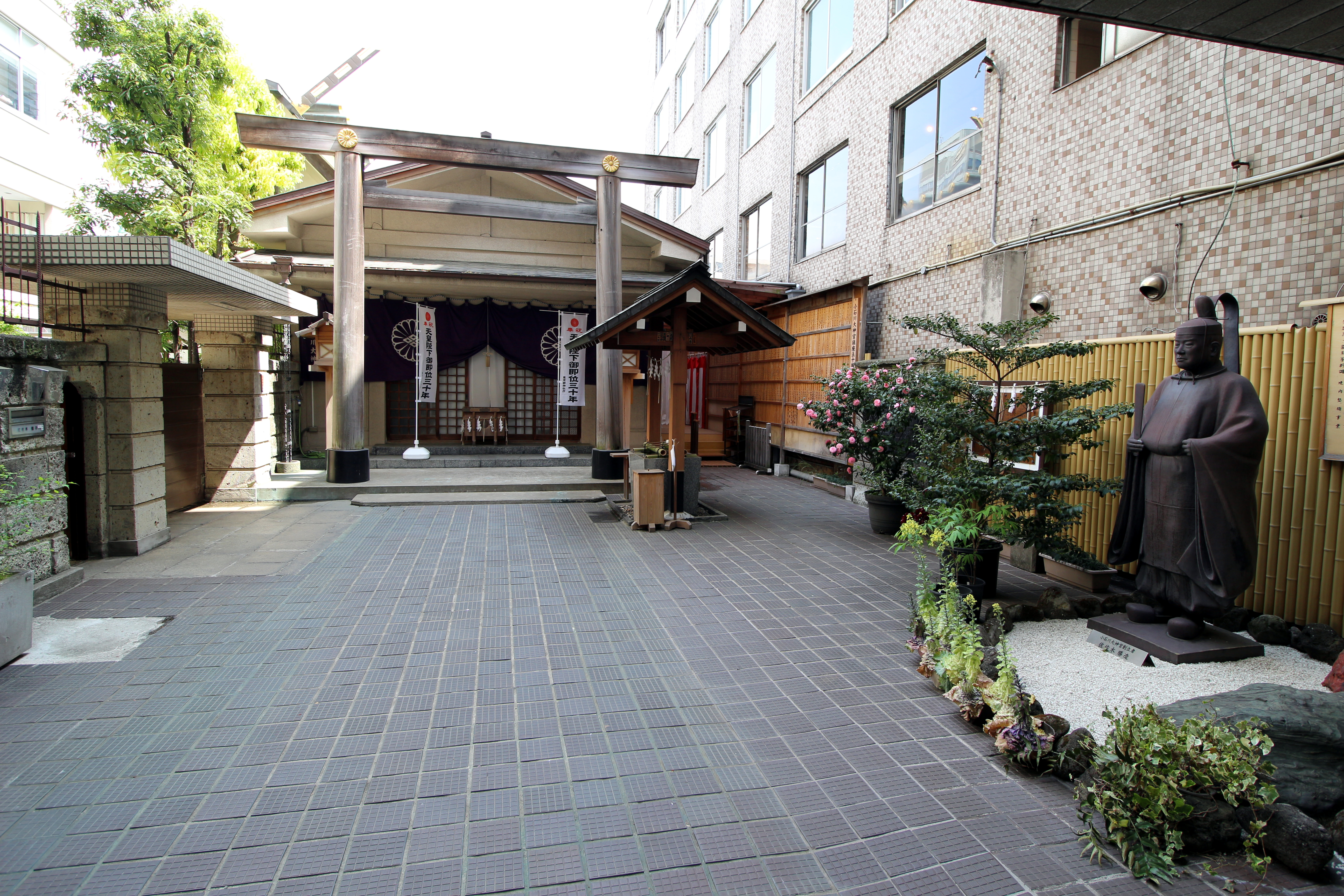 Koishikawa Daijingū, a shinto shrine, in Bunkyo-ku, Tokyo.